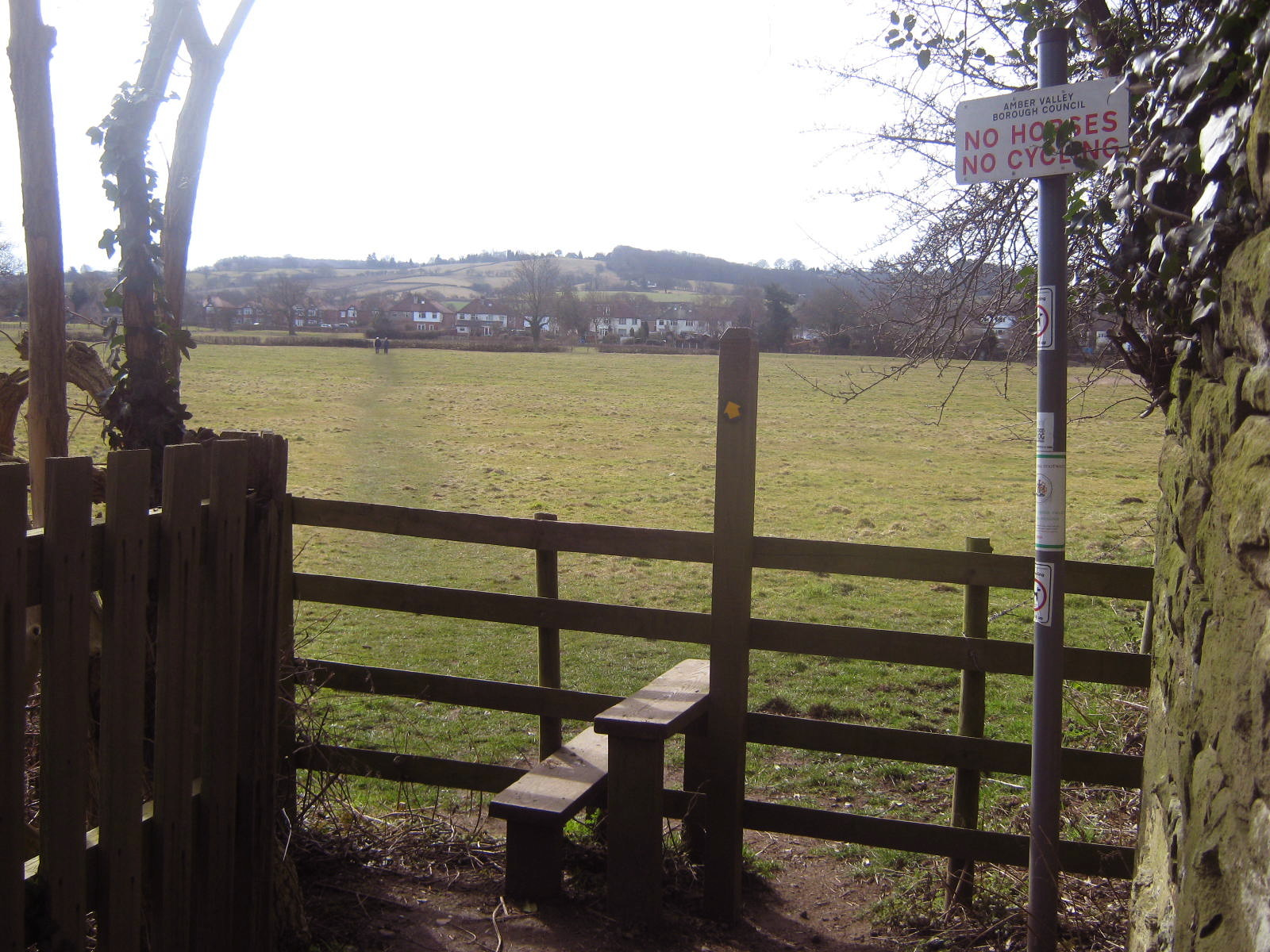 The start of a public footpath from Church Walk, Duffield and the end in the distance is where the houses are on Derby Road, Duffield. Photo Taken: 14/03/10